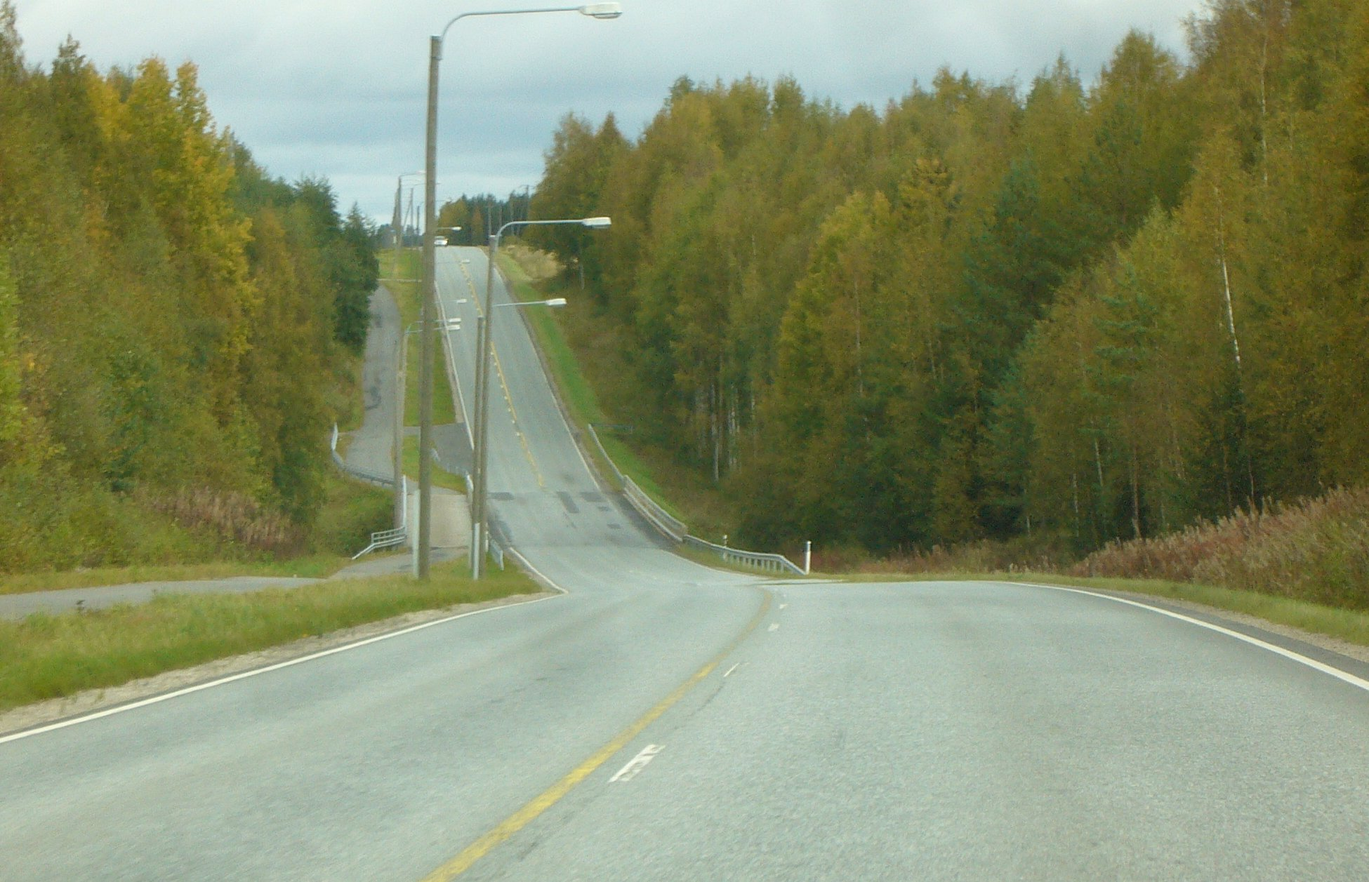 National road 67 in Kurikka, Finland.